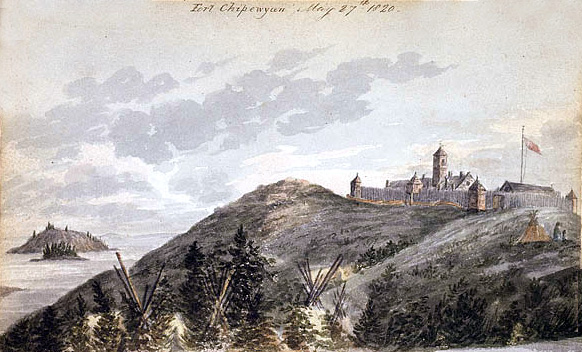 Original caption: "Fort Chipewyan (drawing by Sir George Back in 1820) was the headquarters of the Athabasca District of the HBC. Note the Dene/Chipewyan tipis in the foreground."